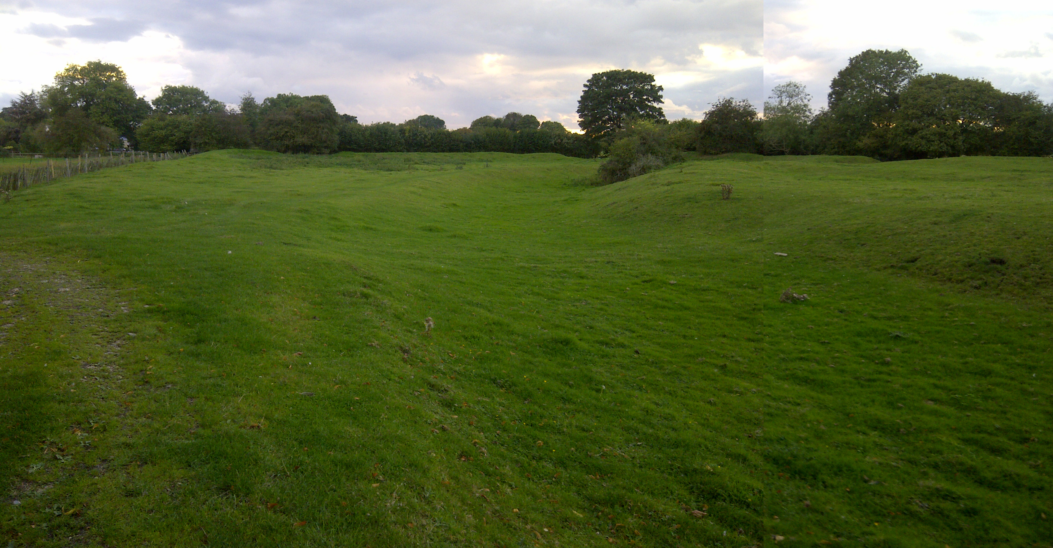 A stitch of two geograph pictures showing Ashton Keynes Castle